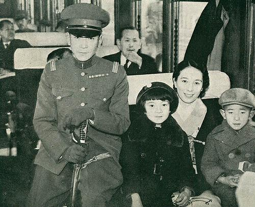 Baron Nishi (西竹一, 1902–45) and his family sending him off to Berlin Olympic games (ベルリンオリンピックへ西竹一を見送る妻子）